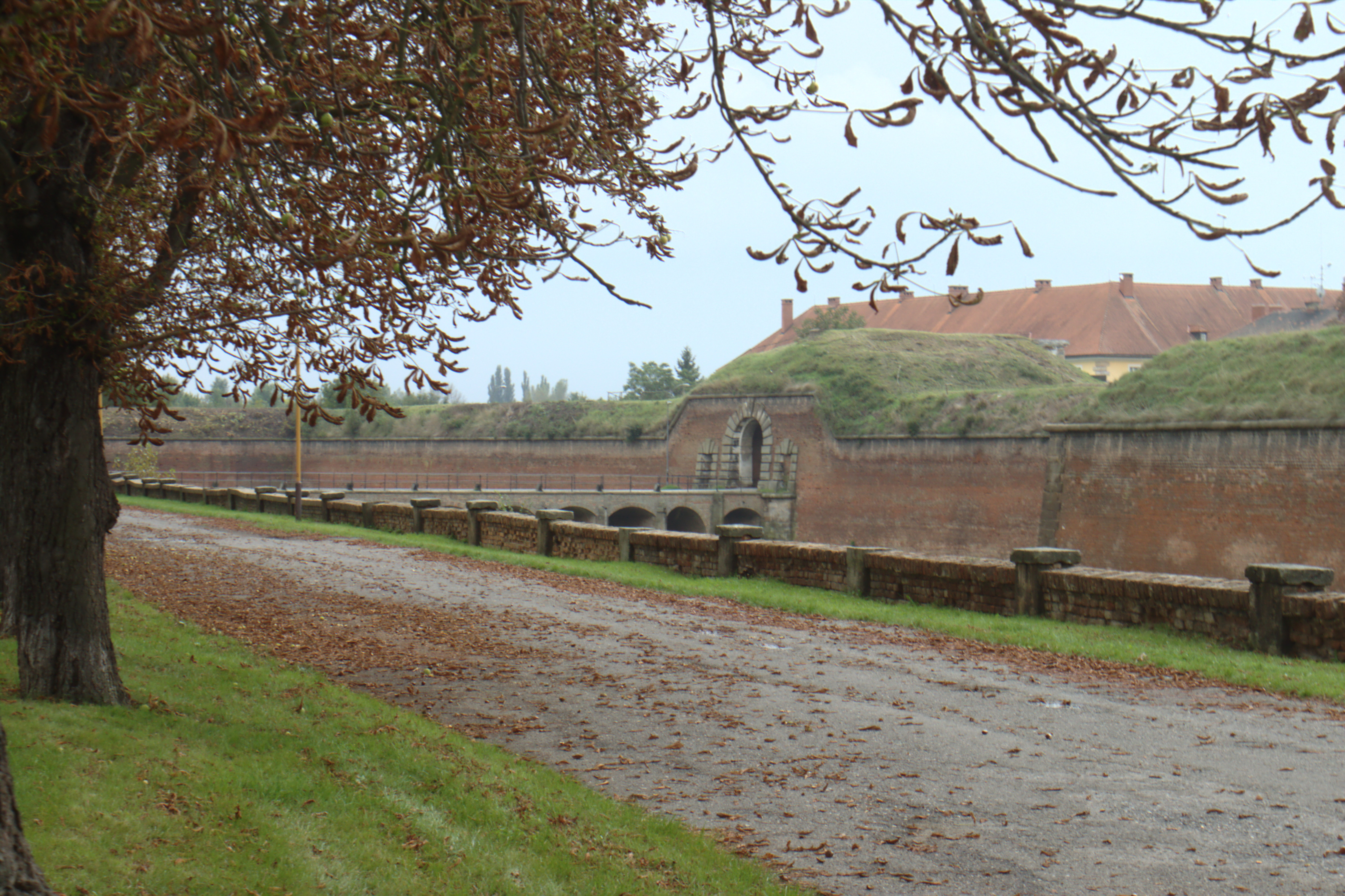 A fortification system of the town of Terezín, Ústí Region, CZ